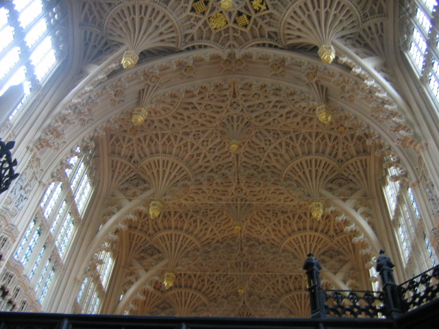 London : Westminster abbaye